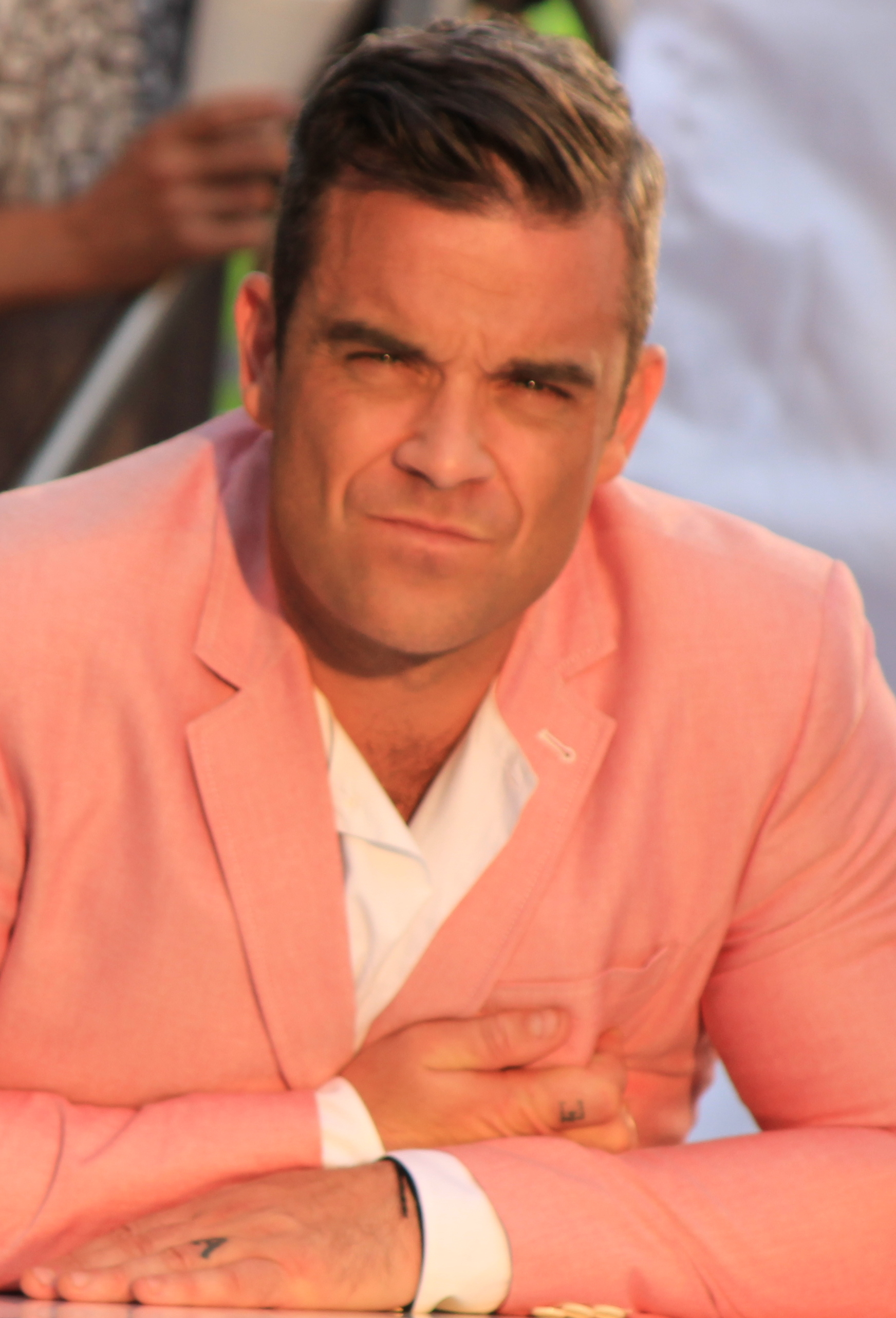 Robbie Williams filming his new music video "Candy" at Old Spitalfields Market, (August 2012).